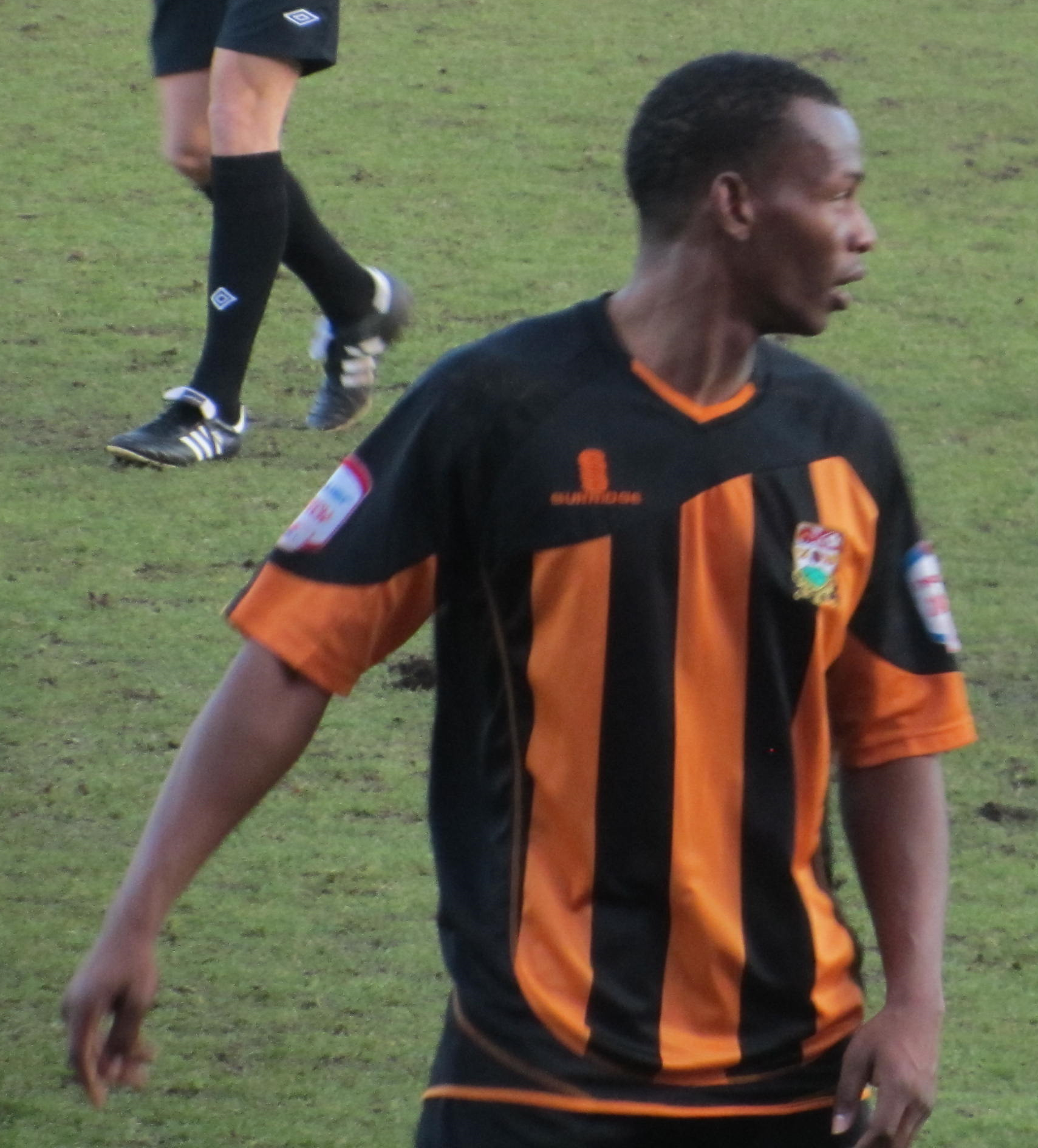 Jon Nurse.